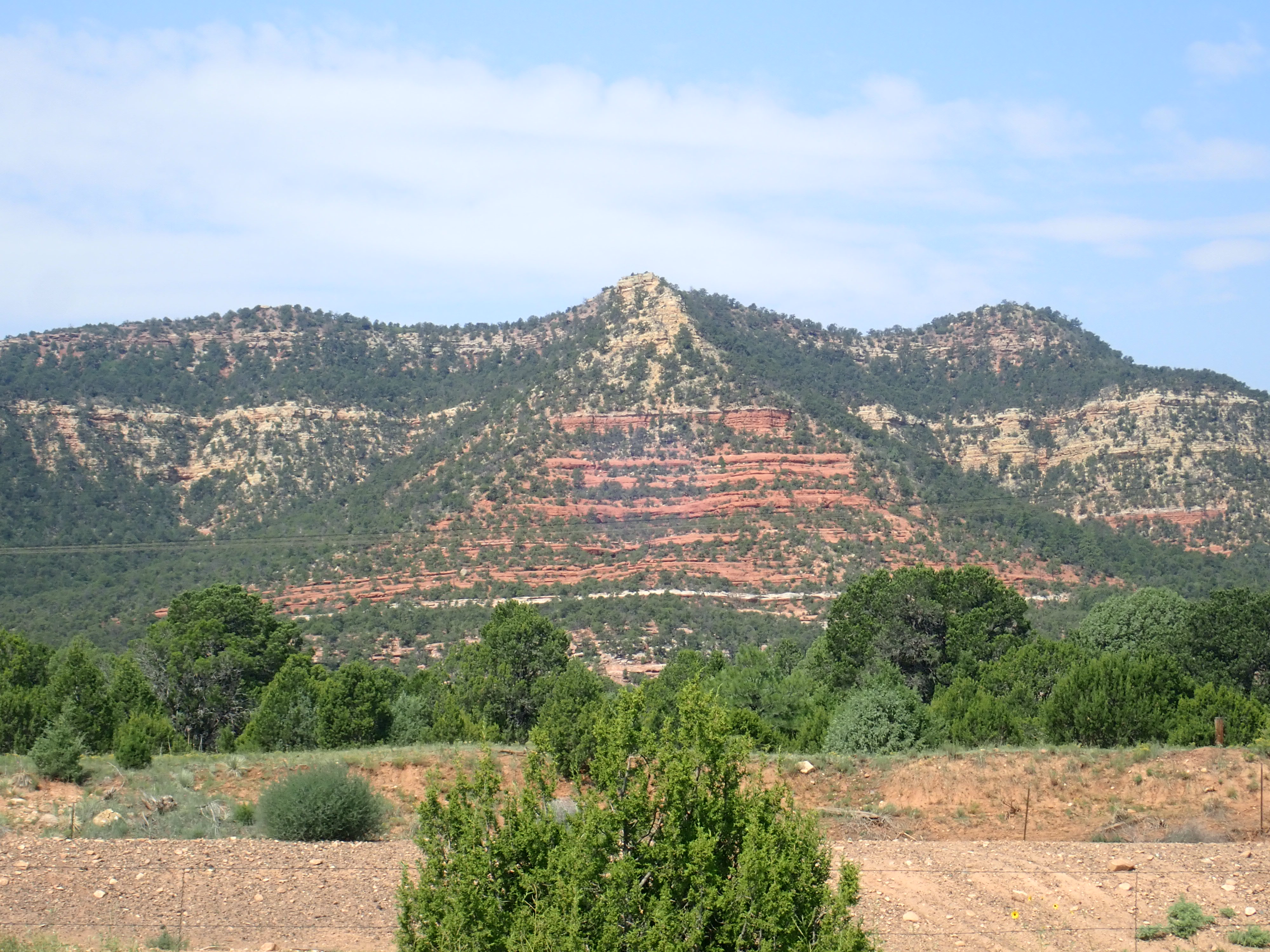 This image shows the type section of the Glorieta Sandstone west of Rowe, New Mexico, USA. The lower red beds are the underlying Yeso Group; the grey beds at the top of the cliff are the Glorieta Sandstone. This is capped with a thin bed of the San Andreas Limestone which is in turn overlaid by knolls that are erosional remnants of the Artesia Formation (formerly mapped here as Bernal Formation) and Santa Rosa Sandstone.